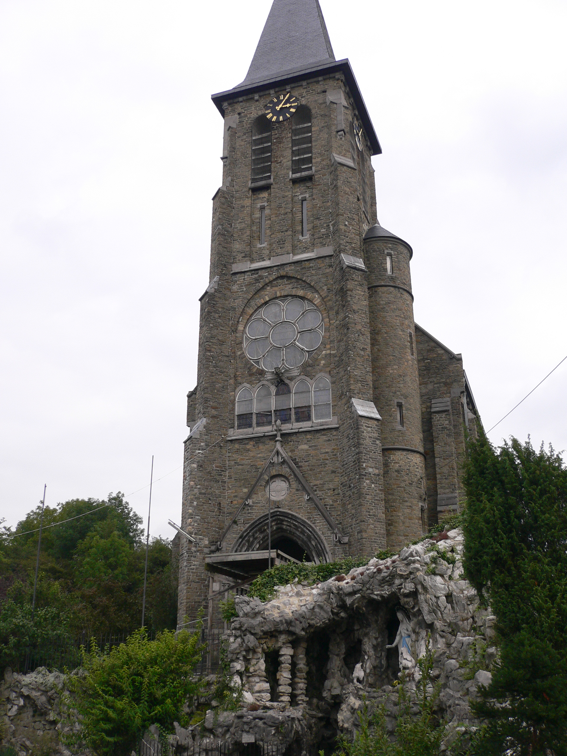 The church of Wegnez, Belgium.